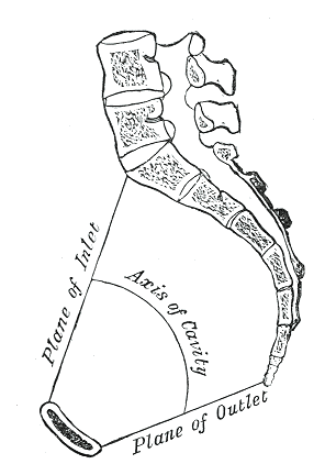 Vertical section of the pelvis, with lines indicating the axes of the pelvis.